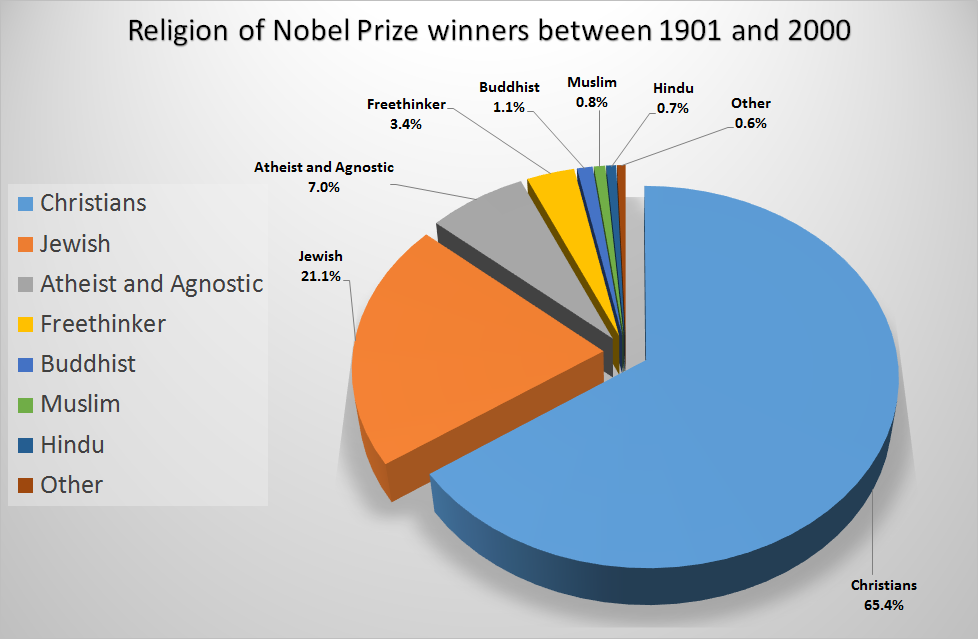 Distribution of Nobel Prizes by religion between 1901-2000, the data tooks from Baruch A. Shalev, 100 Years of Nobel Prizes (2003), Atlantic Publishers & Distributors, p.59 and p.57: between 1901 and 2000 reveals that 654 Laureates belong to 28 different religion. Most 65.4% have identified Christianity in its various forms as their religious preference. Overall, Christians have won a total of 78.3% of all the Nobel Prizes in Peace, 72.5% in Chemistry, 65.3% in Physics, 62% in Medicine, 54% in Economics and 49.5% of all Literature awards. While separating Roman Catholic from Protestants among Christians proved difficult in some cases, available information suggests that more Protestants were involved in the scientific categories and more Catholics were involved in the Literature and Peace categories. Atheists, agnostics, and freethinkers comprise 10.5% of total Nobel Prize winners; but in the category of Literature, these preferences rise sharply to about 35%. A striking fact involving religion is the high number of Laureates of the Jewish faith - over 20% of total Nobel Prizes (138); including: 17% in Chemistry, 26% in Medicine and Physics, 40% in Economics and 11% in Peace and Literature each. The numbers are especially startling in light of the fact that only some 14 million people (0.02% of the world's population) are Jewish. By contrast, only 5 Nobel Laureates have been of the Muslim faith-0.8% of total number of Nobel prizes awarded - from a population base of about 1.2 billion (20% of the world‘s population).